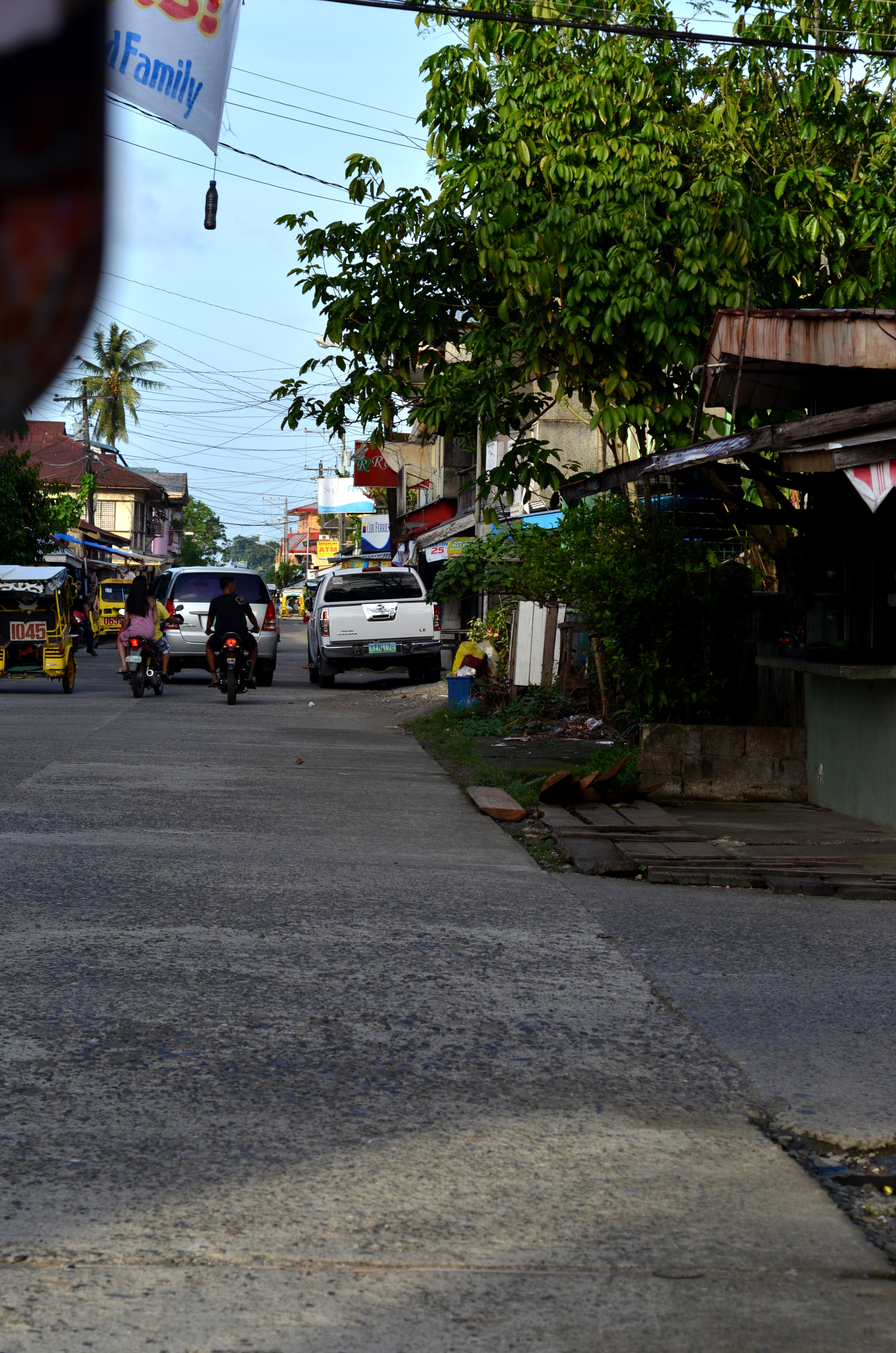 Street along Osmena